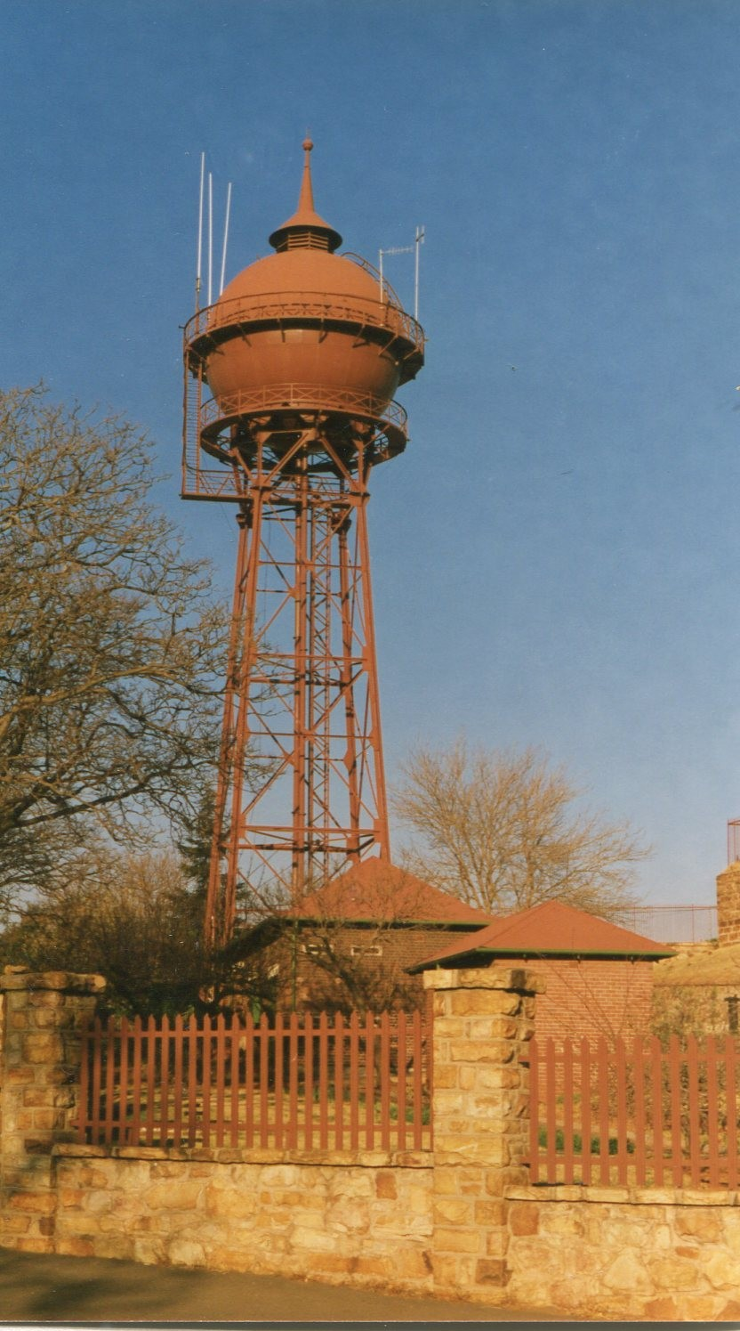 The Yeoville Water Tower is in Harley Street near the fountain of Doornforntein where James Saviwrights. It was built in 1914 and was one of the most important and unique water tower in Johannesburg